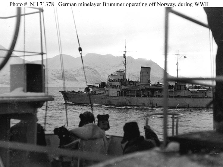 The Norwegian minelayer HNoMS Olav Tryggvason after capture by the Germans, who operated her as the Brummer